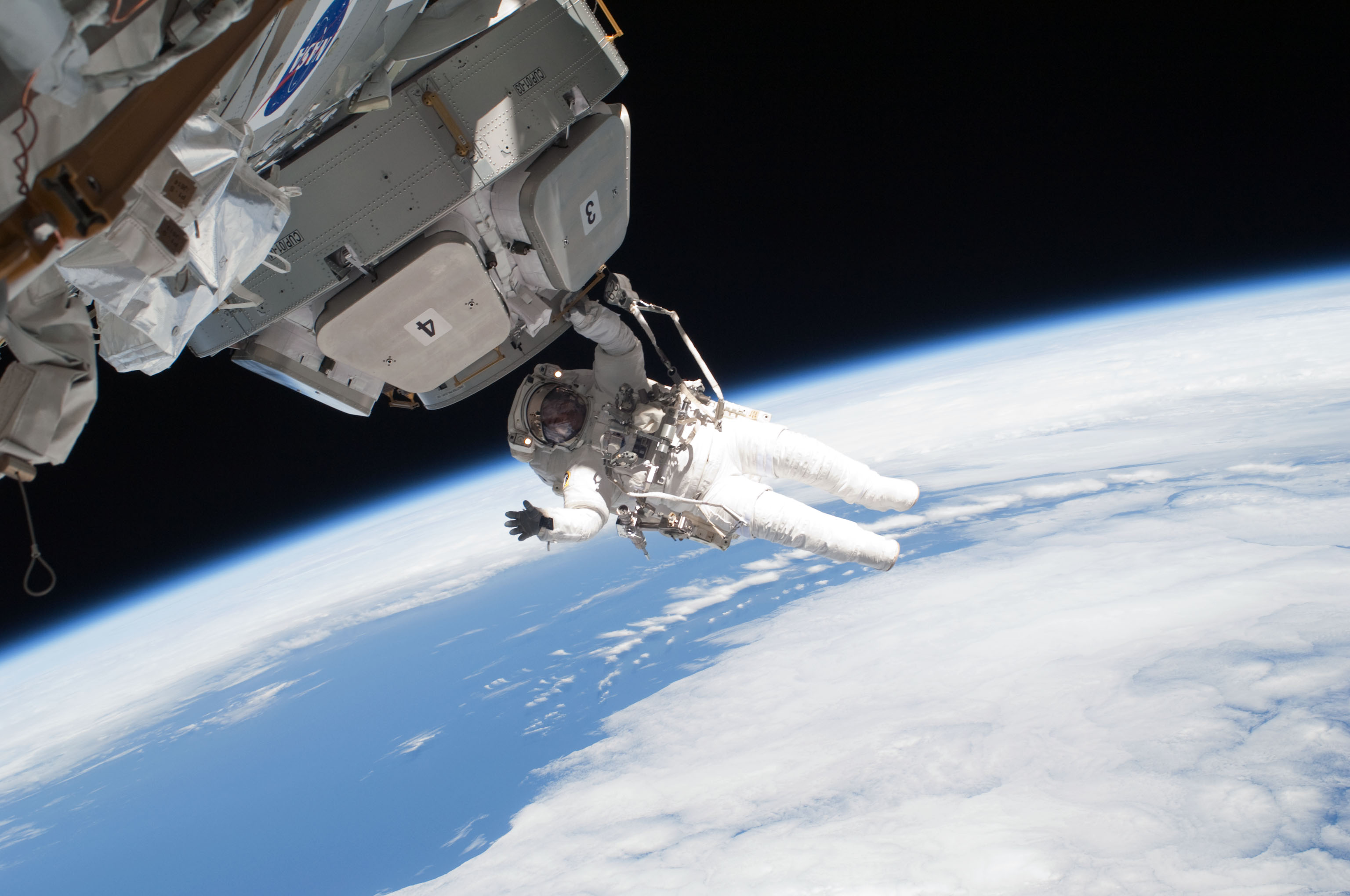 NASA astronaut Nicholas Patrick, STS-130 mission specialist, participates in the mission's third and final session of extravehicular activity (EVA) as construction and maintenance continue on the International Space Station. During the five-hour, 48-minute spacewalk, Patrick and astronaut Robert Behnken (out of frame), mission specialist, completed all of their planned tasks, removing insulation blankets and removing launch restraint bolts from each of the Cupola's seven windows.